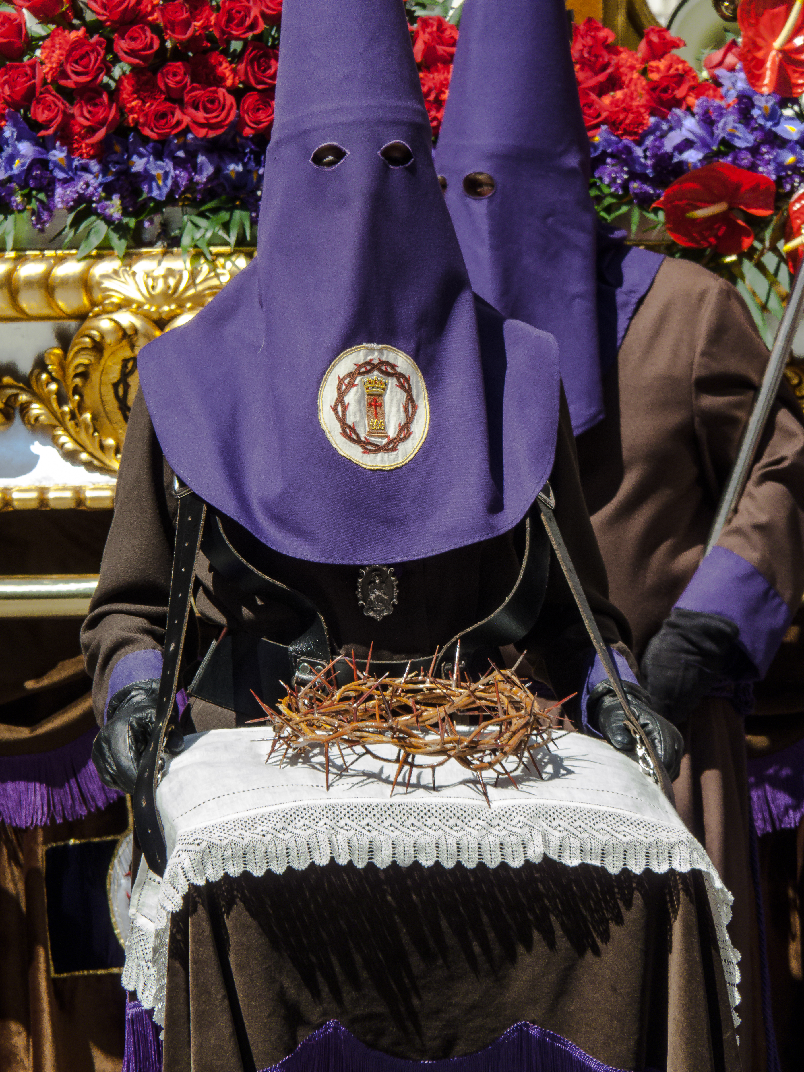 En la mañana del Jueves Santo la cofradía de la Coronación de Espinas procesionó por las calles de Zaragoza This is a photography of a Folklore festival in Spain (Wikidata id Q9075892).